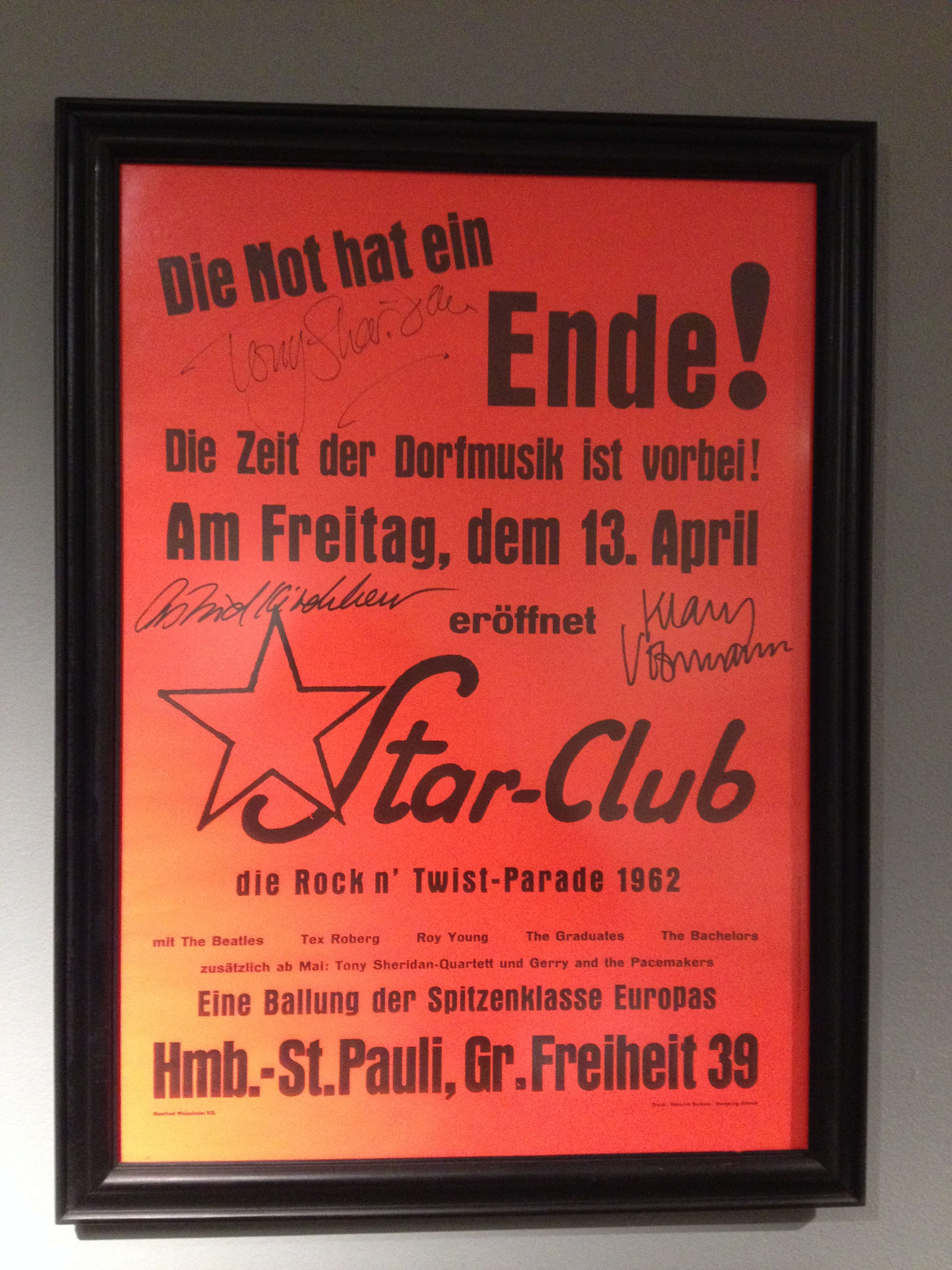 Wikimania 2015 photographs by Sebastian Wallroth